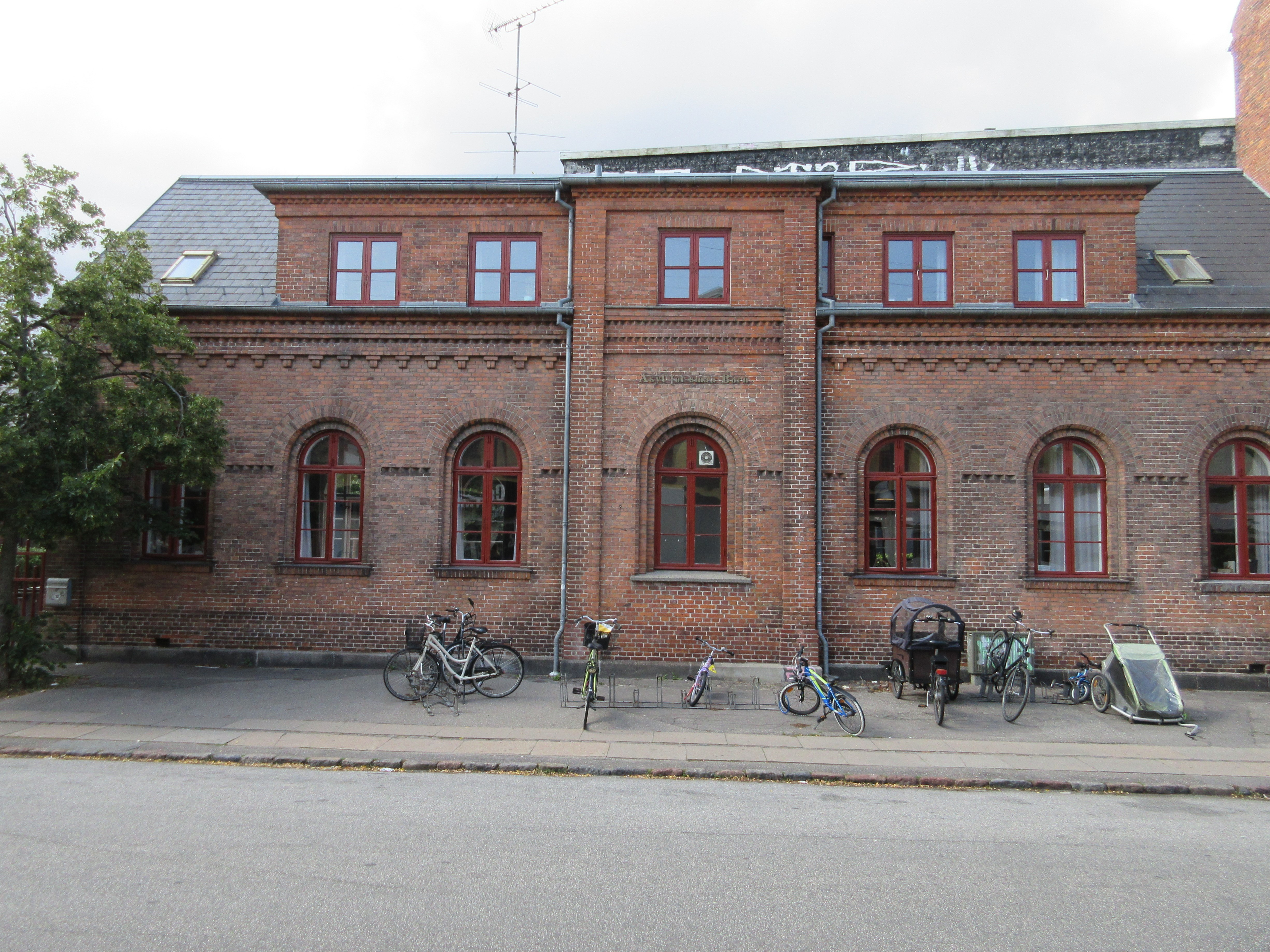 Sundby Asyl at Frankrigsgade 3 in Copenhagen, Denmark